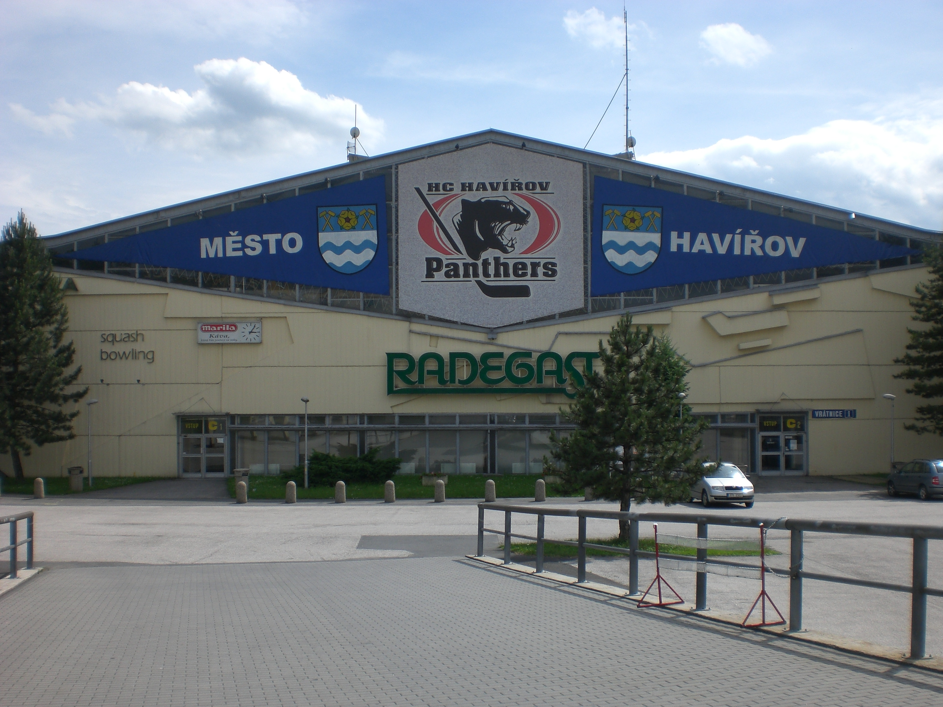 Front of the HC Havirov Panthers stadium